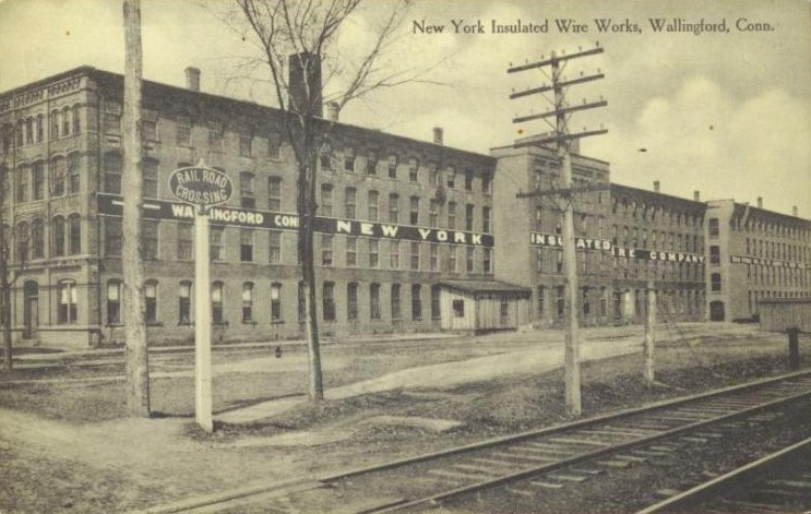 Postcard picture of the four-story New York Insulated Wire Company factory in Wallingford, Connecticut, seen from the at-grade railroad crossing (apparently of an unpaved street), about 1910 (picture is cropped very slightly because the source showed it skewed)